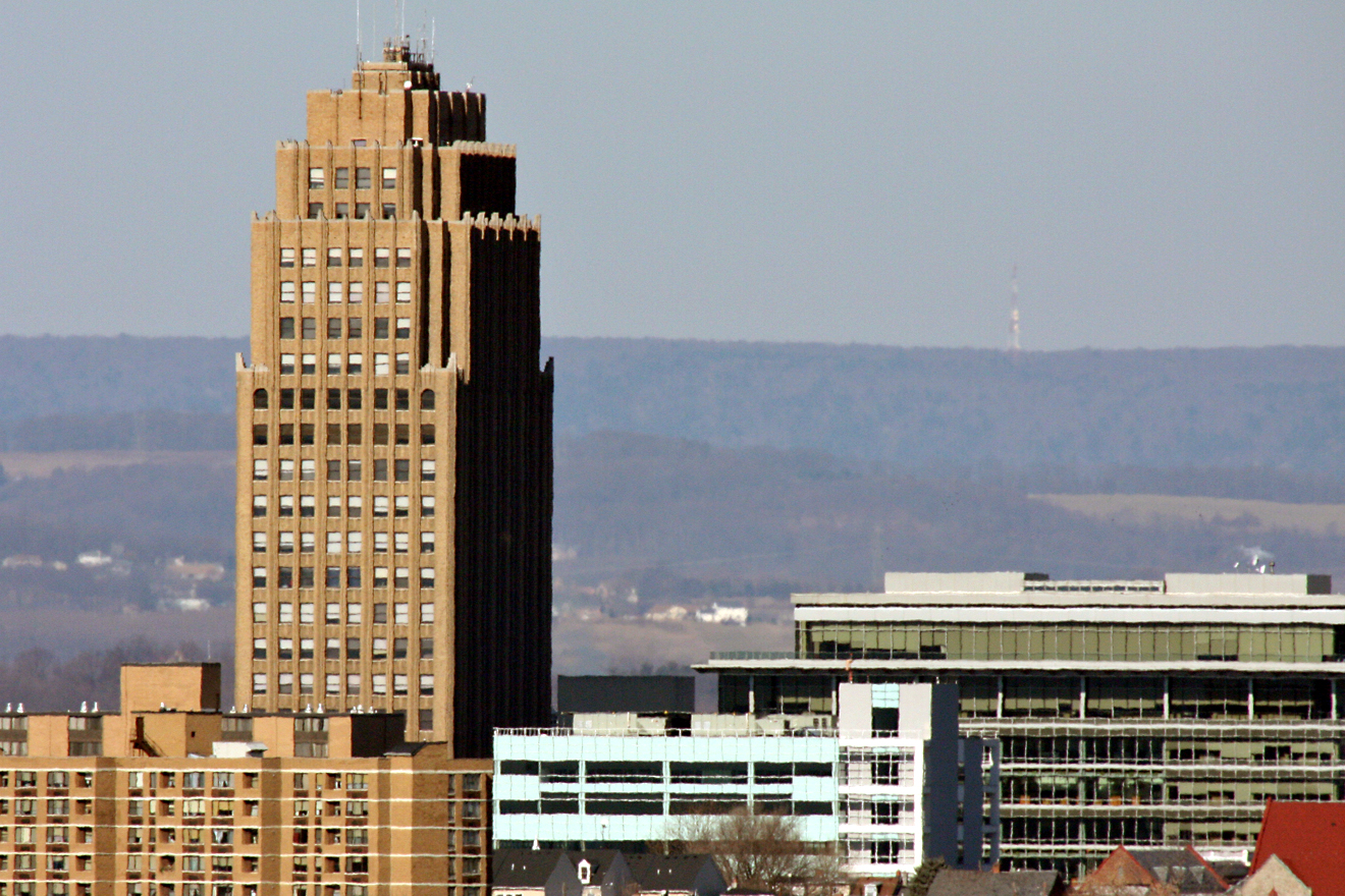 Allentown Skyline